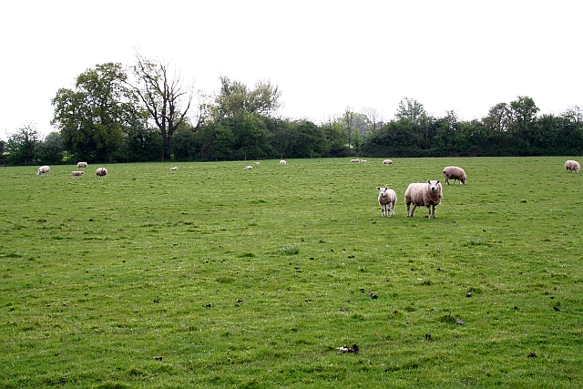 Sheep pasture Close to Longdon Hall. The Beltex is not the most charming of breeds to look at, but I expect their mothers disagree.